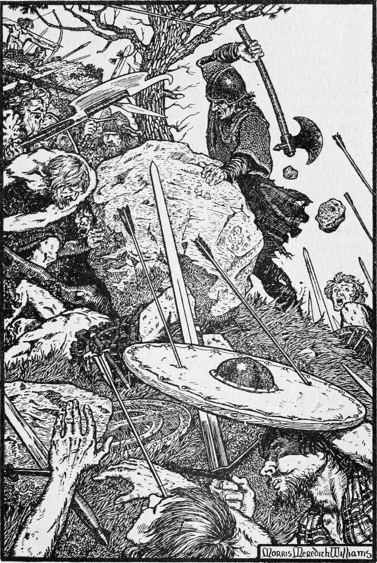 An early twentieth-century depiction of the Battle of the Pass of Brander. The original caption reads: "With Sword and Battle-axe fell upon the Men of Argyle".